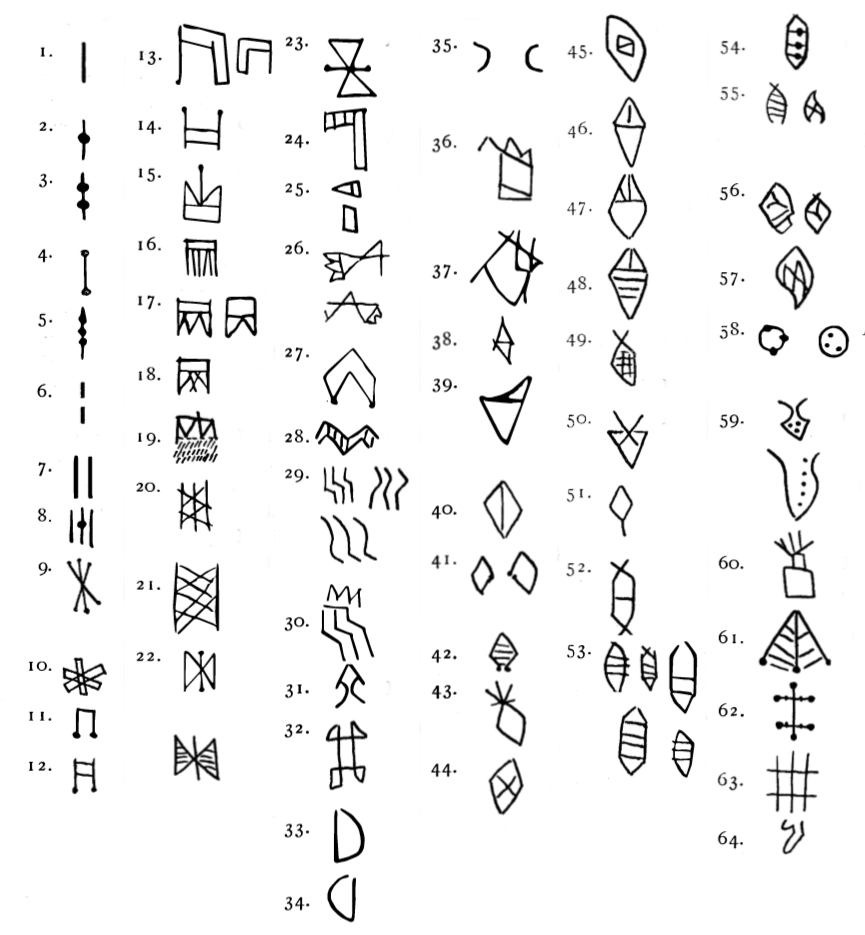 List of known Linear Elamite characters